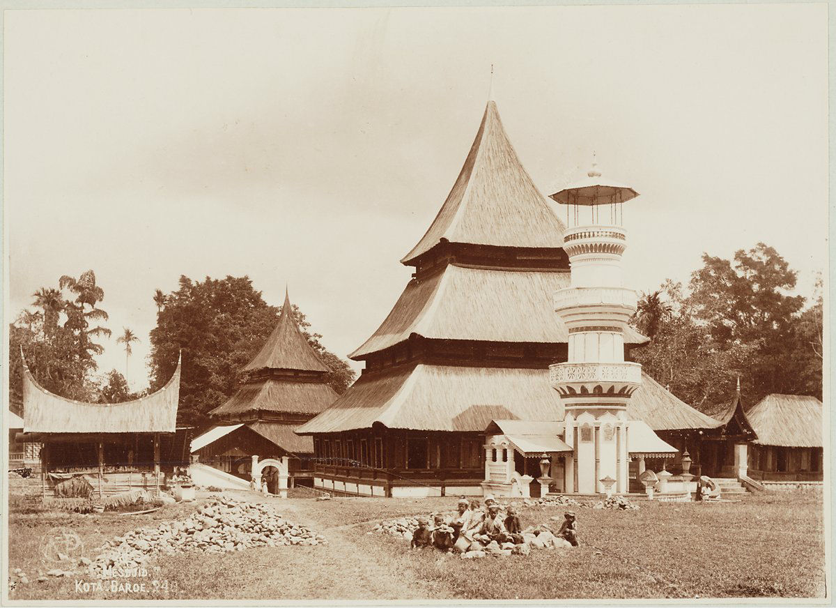 Traditional Minangkabau mosque of Indonesia - circa 1892-1905.